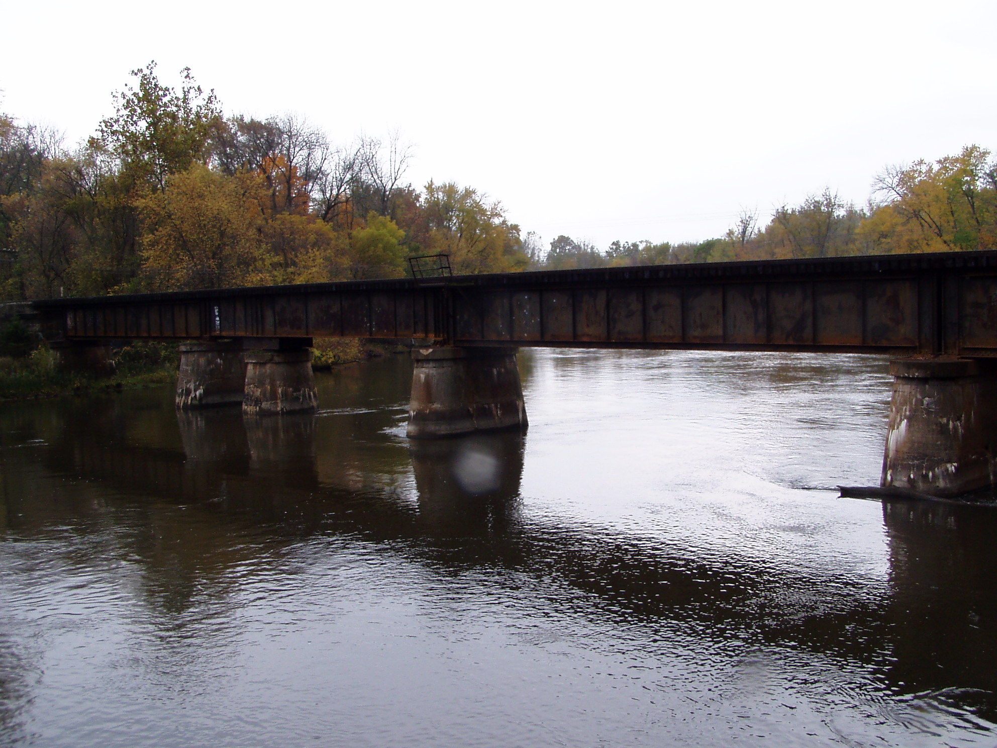 King Bridge Company (center pivot) bridge over the Kalamazoo River (1907)